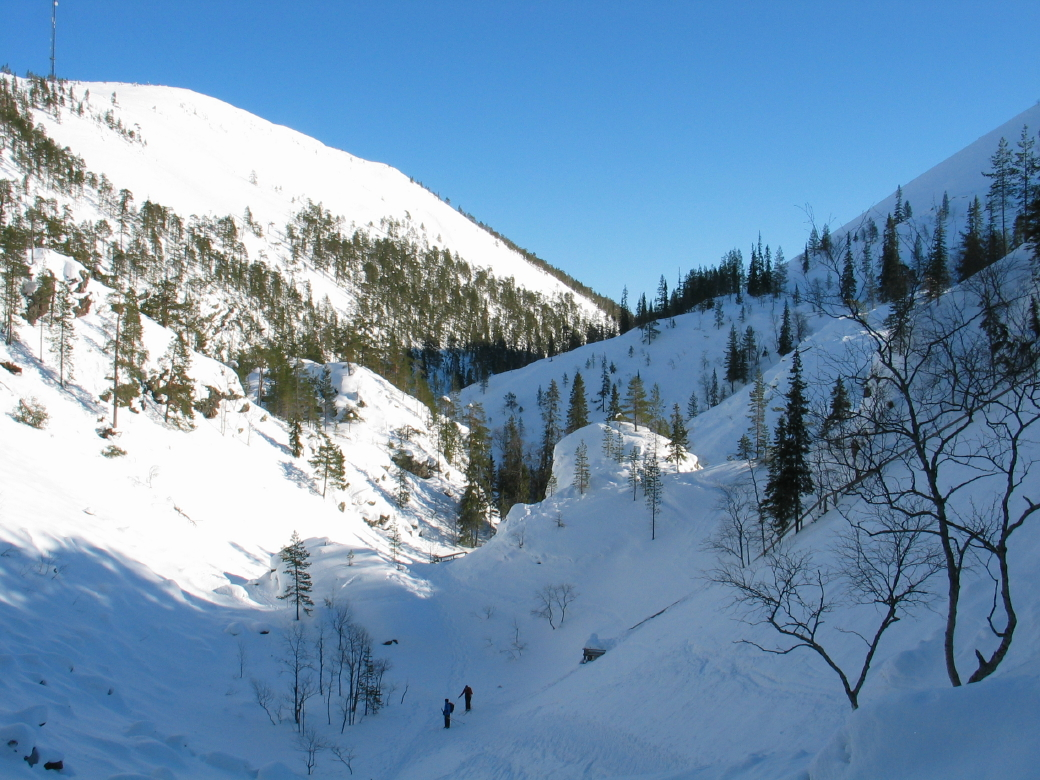 Isokuru in Pyhä-Luosto National Park, Pelkosenniemi, Finland